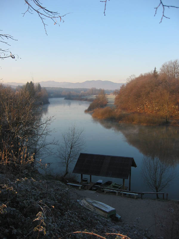 Krka just ahead of Novo mesto, Slovenia